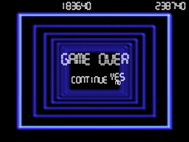 Continue screen from Kenta Cho's A7Xpg